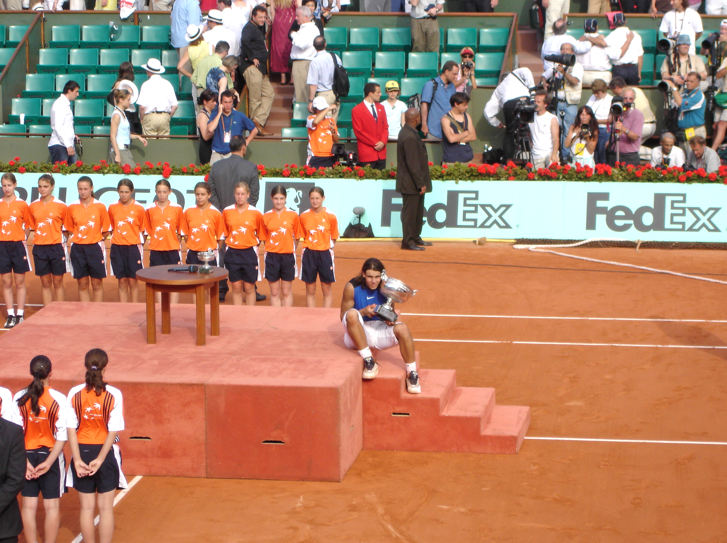 Rafael Nadal holds the Coupe des Mousquetaires after winning the 2006 French Open final over Roger Federer